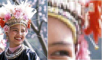 Shows pixels detail to show how pixels are used to construct a picture. Made after Image:Ethic_Dong_Liping_Guizhou_China.jpg work.